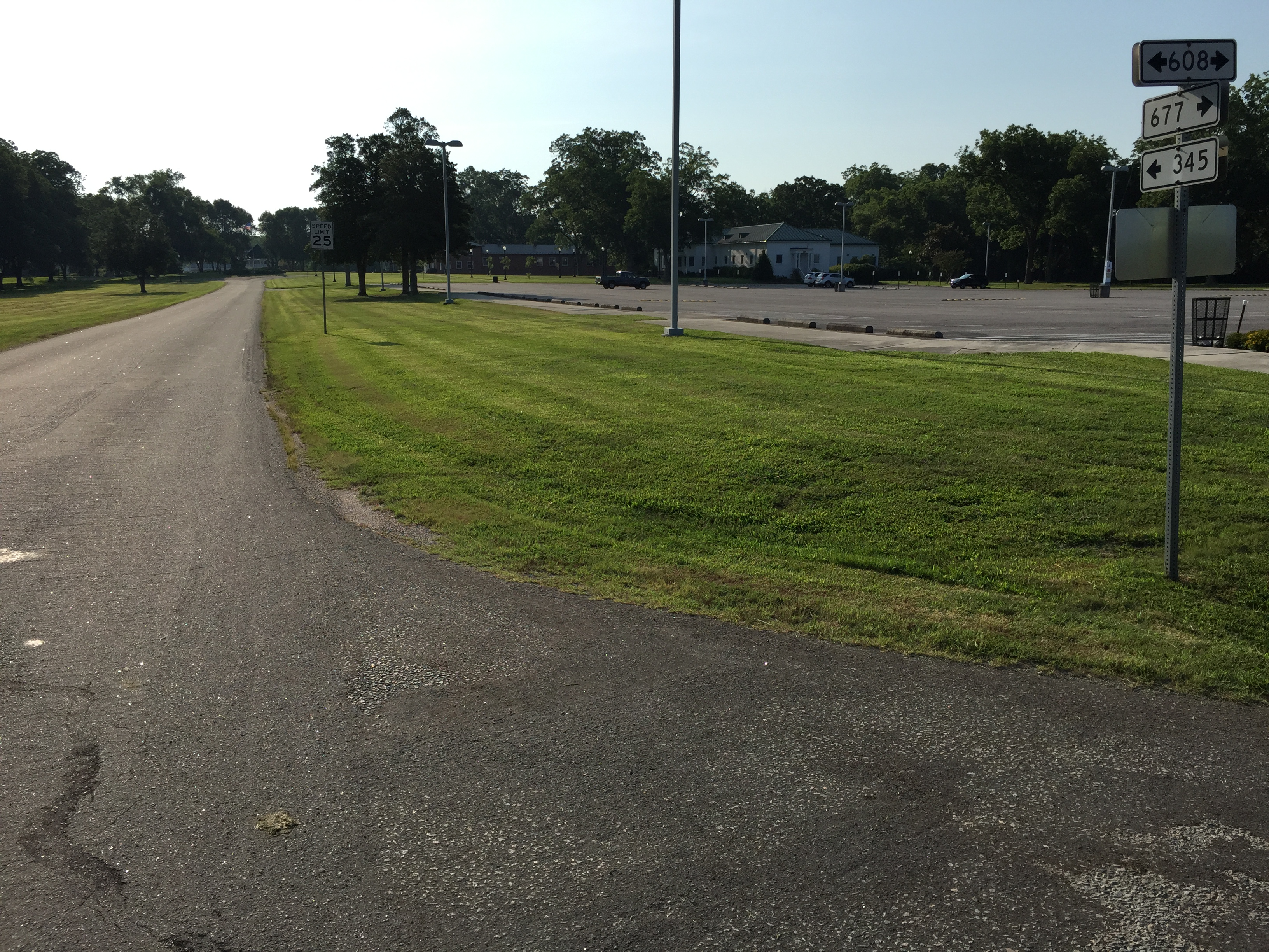 View east along Virginia State Route 345 (Carson Drive) at Virginia State Secondary Route 608 (Johnson Road) at the Richard Bland College of William and Mary in Dinwiddie County, Virginia